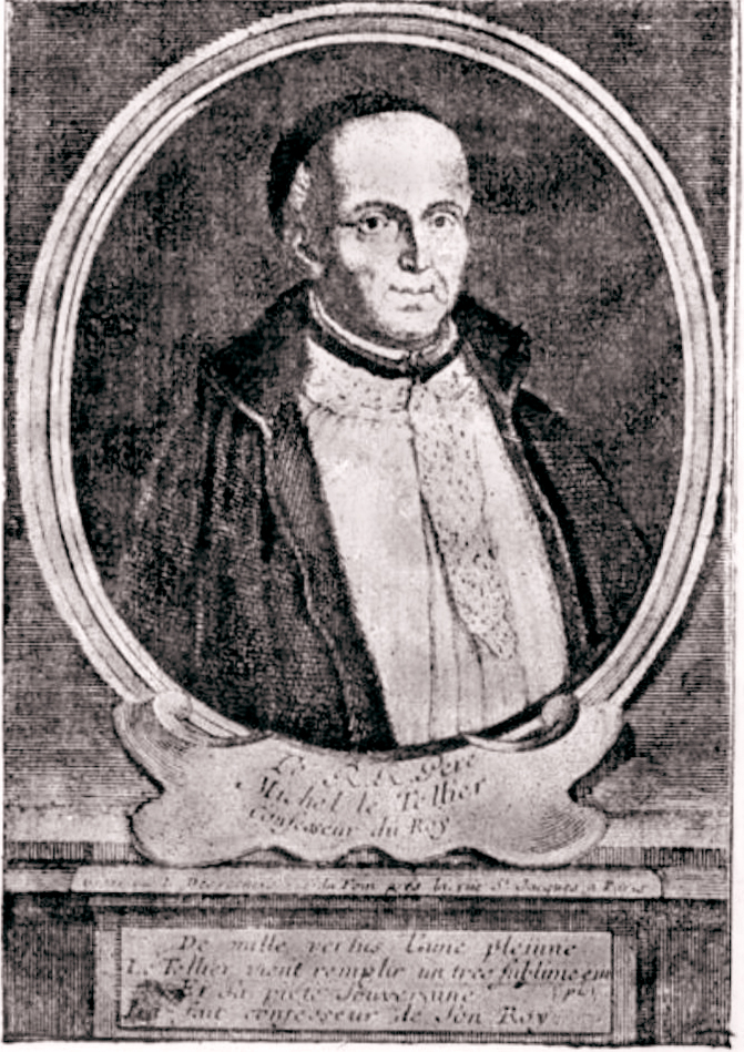 Michel Le Tellier (1643-1719), French Jesuit and confessor to king Louis XIV (1709-1715).